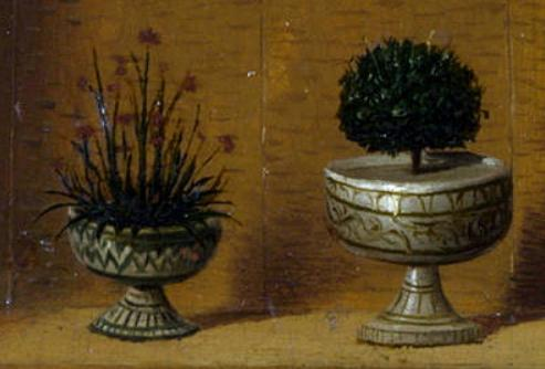 Plants in Antonello da Messina's painting St. Jerome in His Study